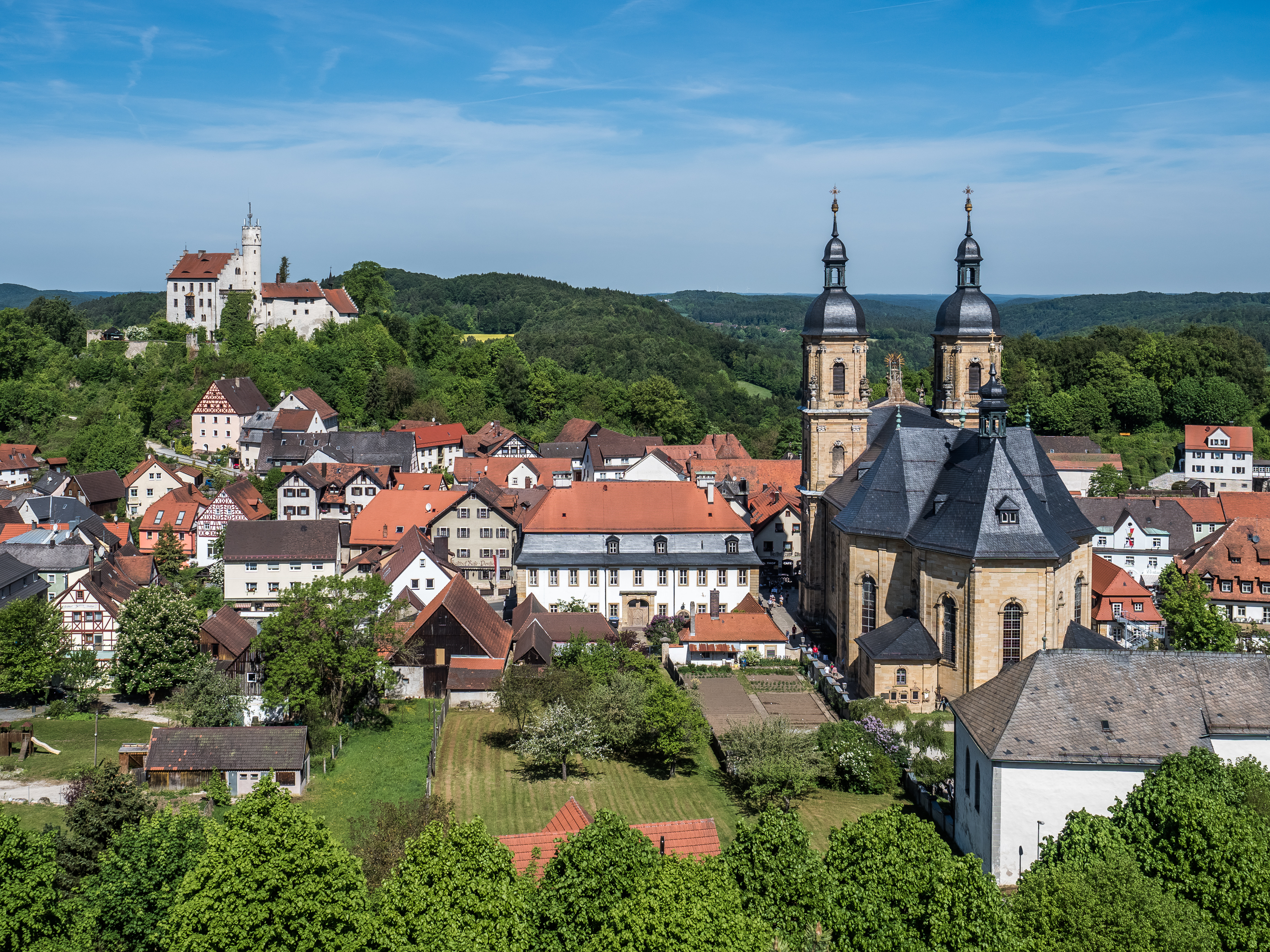 Overlooking Gößweinstein